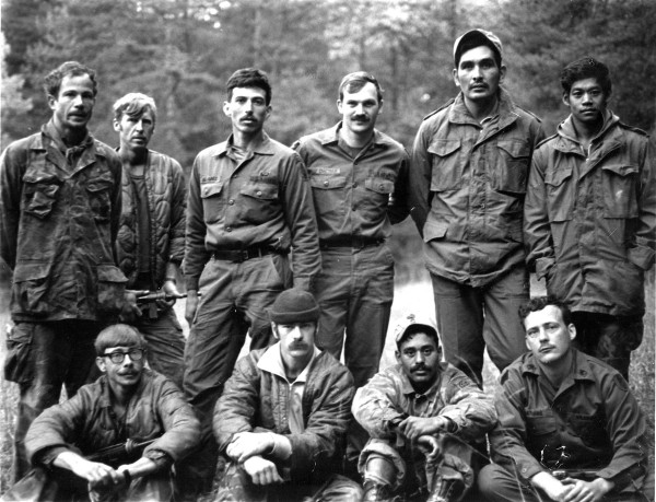 Operator Training Course, second class. Fall selection, 1978.